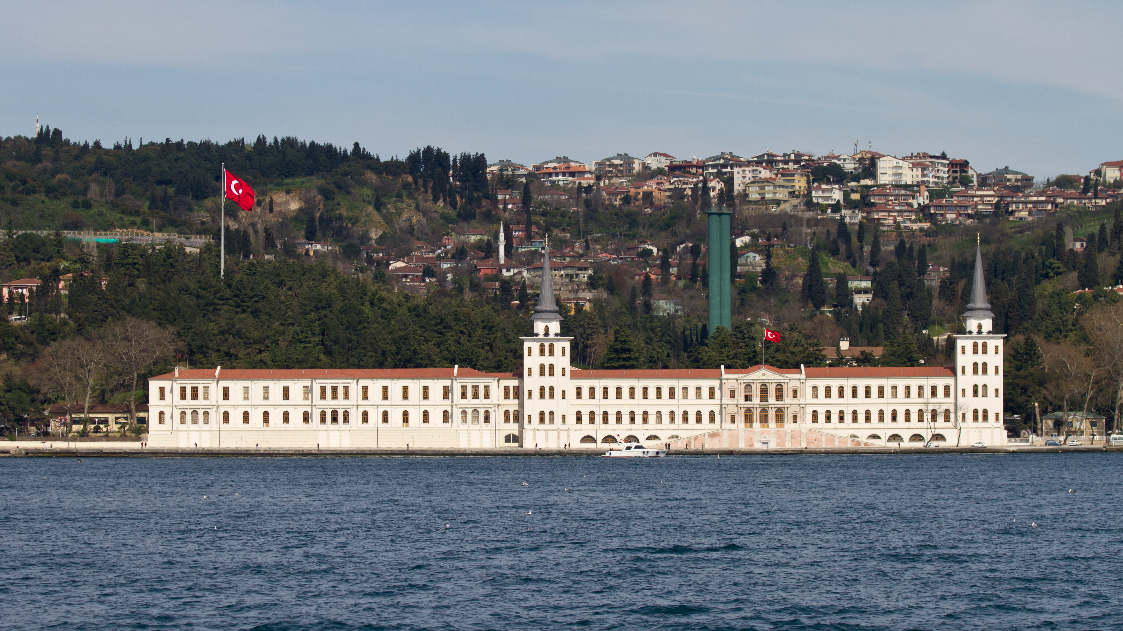 Kuleli Military High School, in Istanbul.